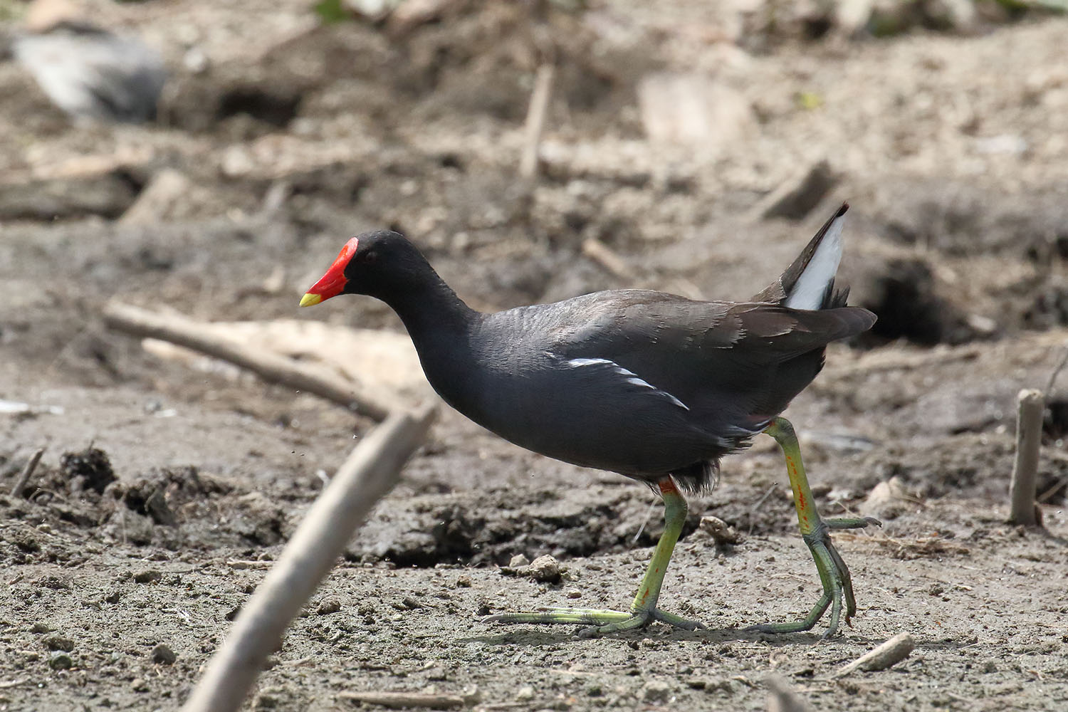 Common moorhen, Naivasha, Kenya